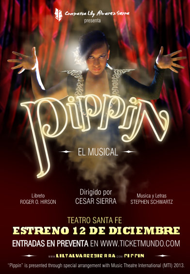 Poster Pippin Venezuela 2013